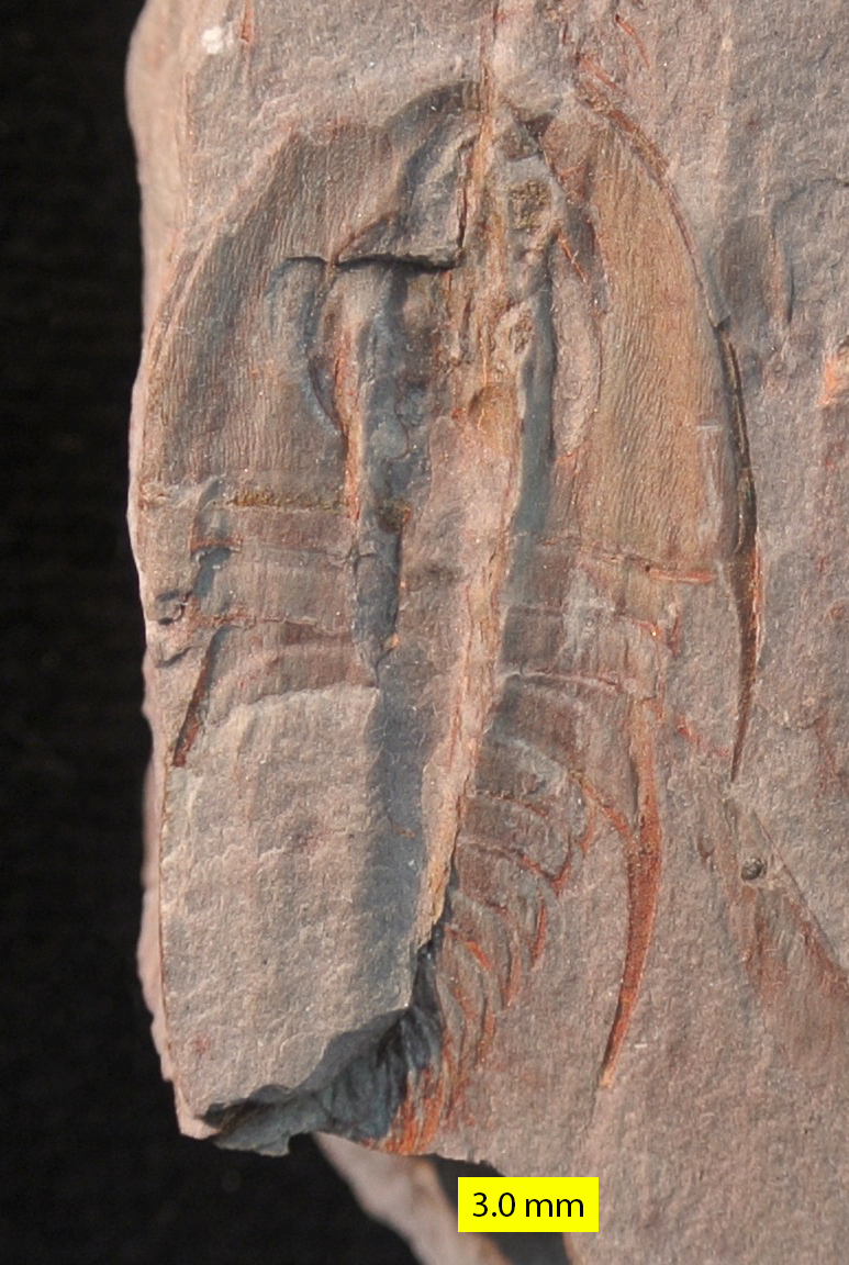 Olenellus terminatus; Pyramid Shale Member of the Carrara Formation; Emigrant Pass, Inyo County, California.